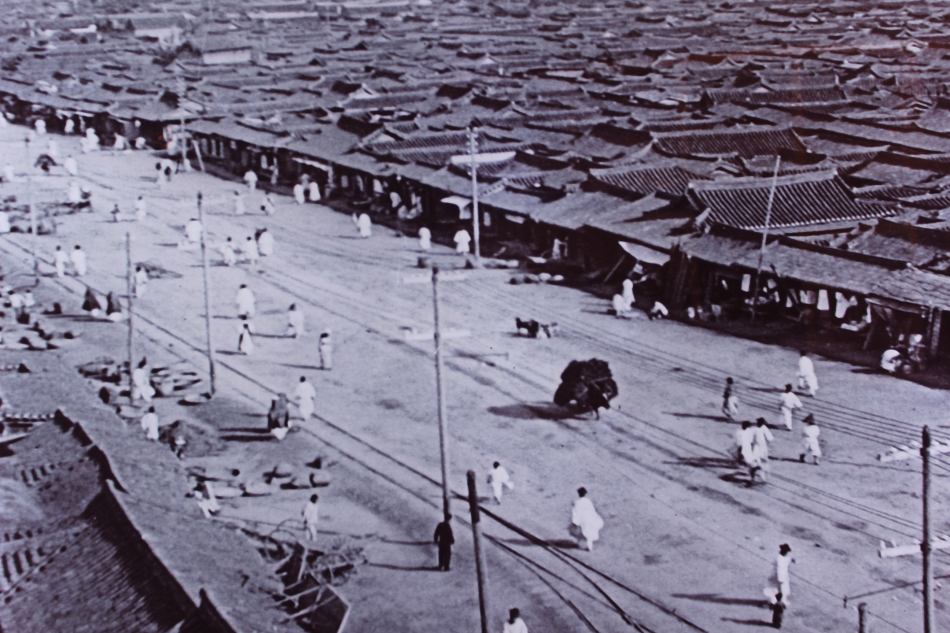 1903 seoul